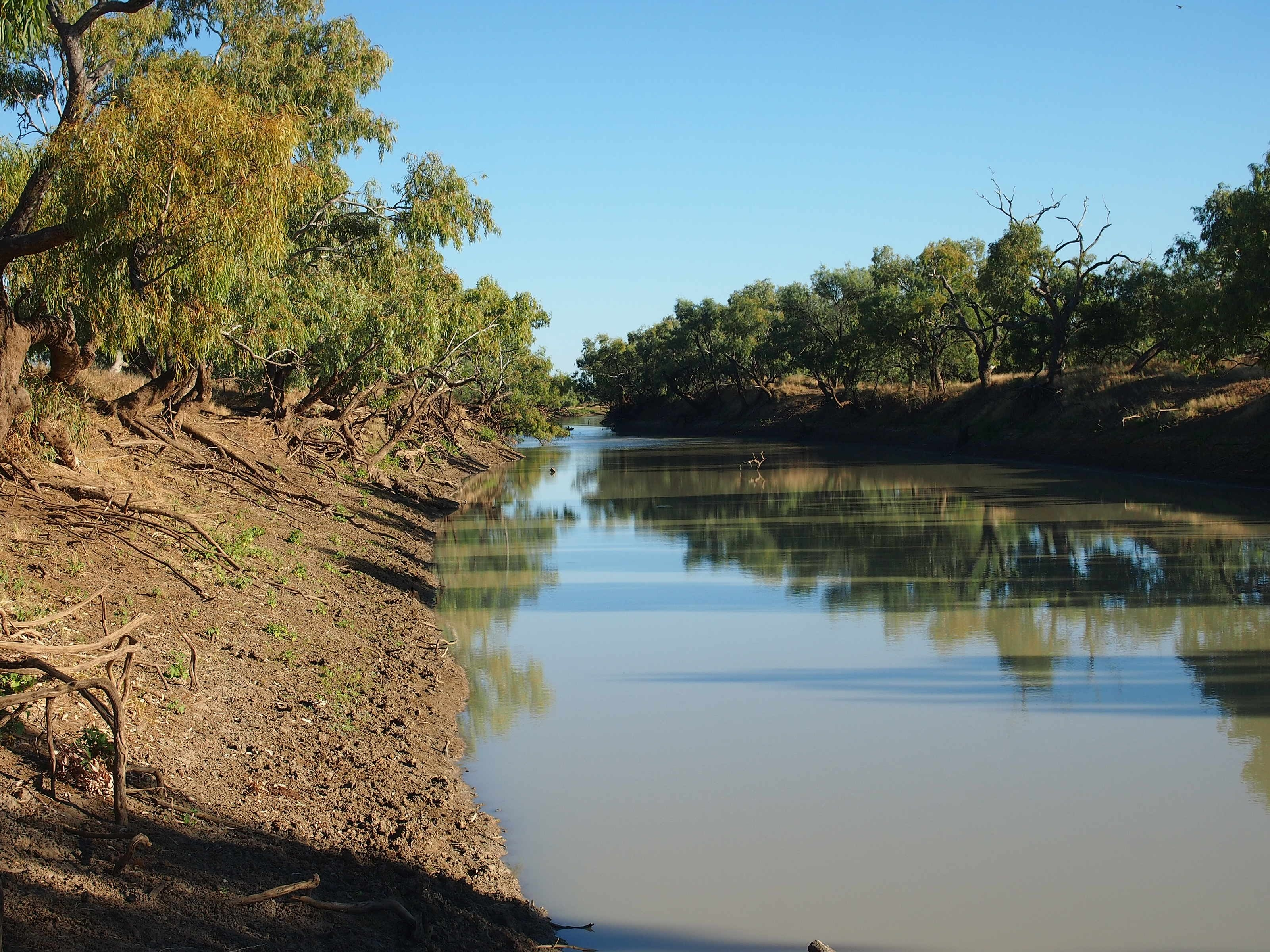 Georgina River, Lake Nash station.